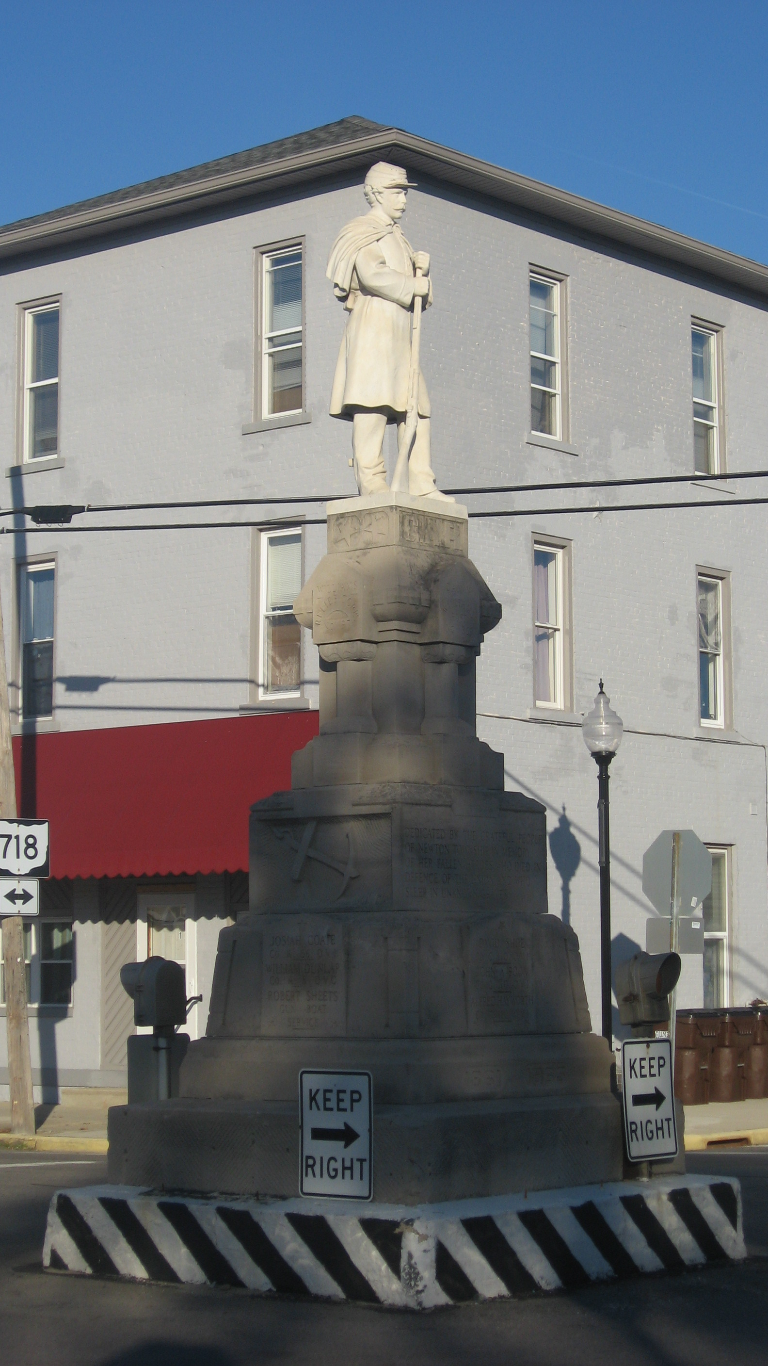 View from the southwest of a Grand Army of the Republic statue, located in the middle of the intersection of Monument (State Route 718) and Main (State Route 48) Streets in Pleasant Hill, Ohio, United States. It was built in 1891.